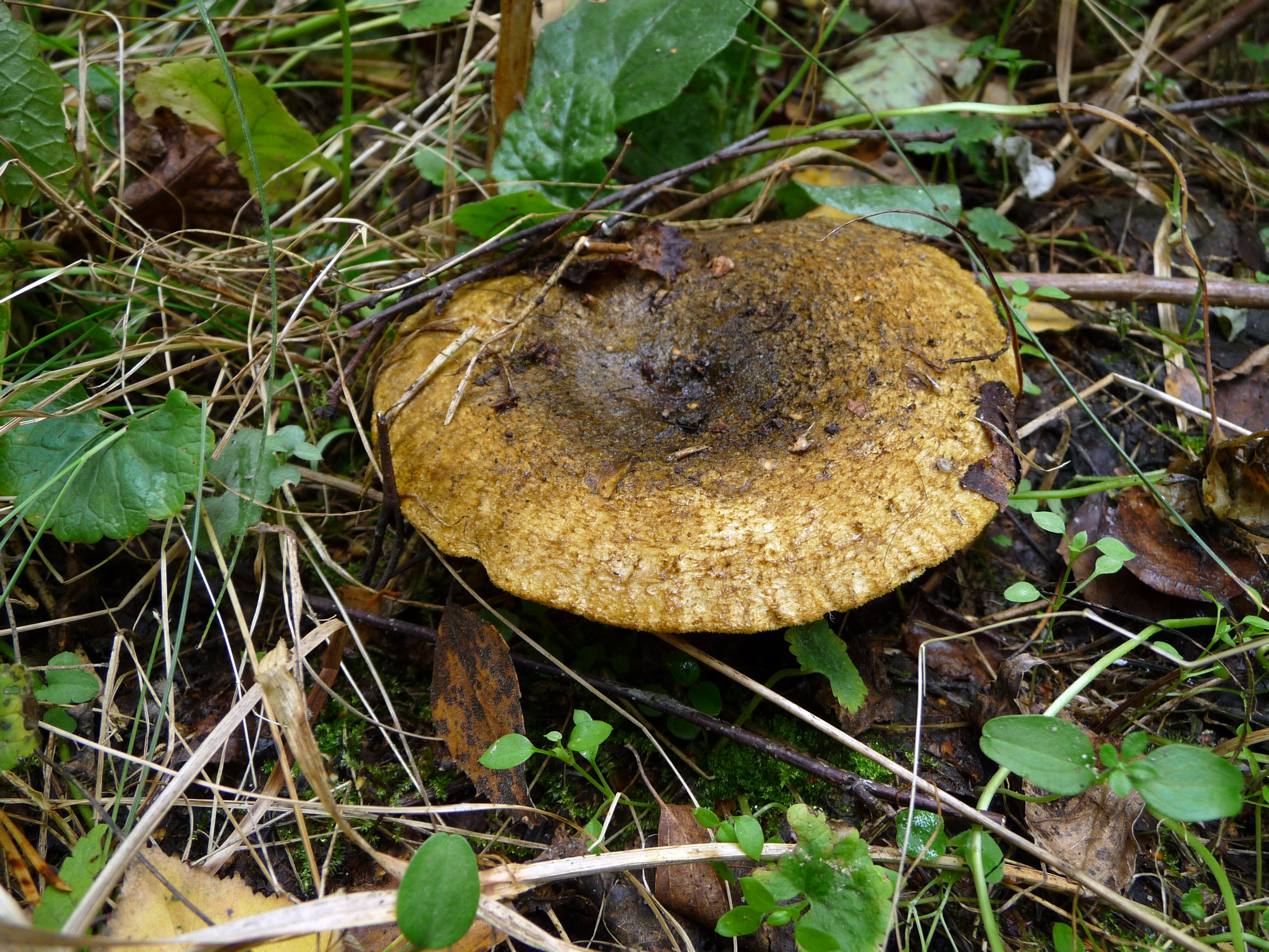 Ugly Milk-cap (Lactarius turpis also L. plumbeus or L. necator). Ukraine